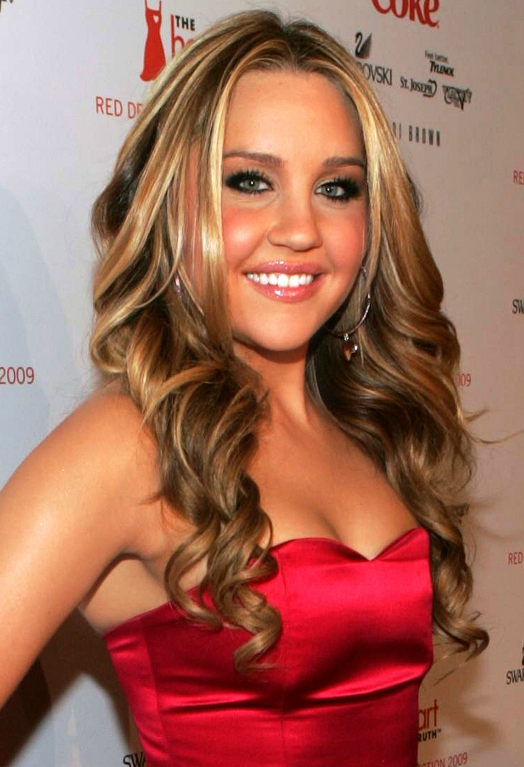 Backstage at The Heart Truth's Red Dress Collection Fashion Show during New York Fashion Week. February 13, 2009 at Bryant Park.